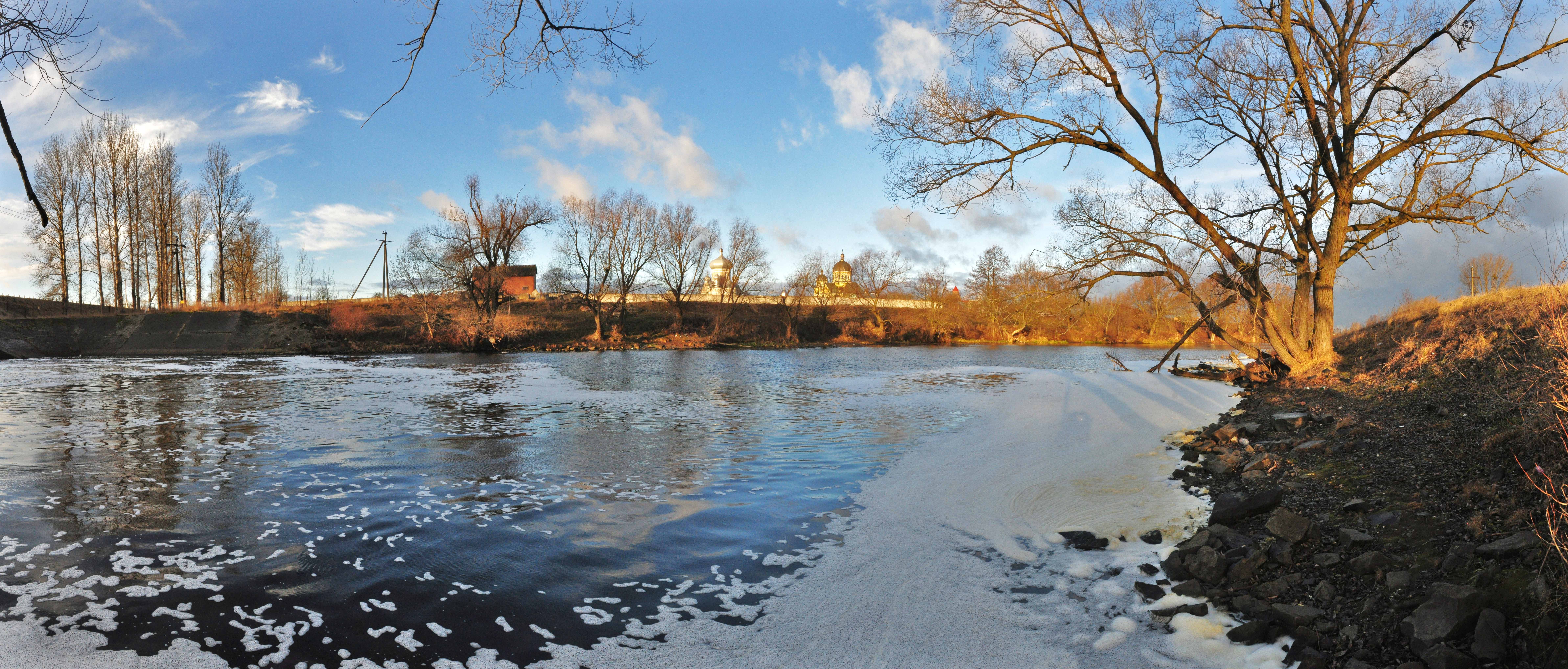 Panorama of Staryy Dobrotvir village from the right bank of the Bug river down the reservoire